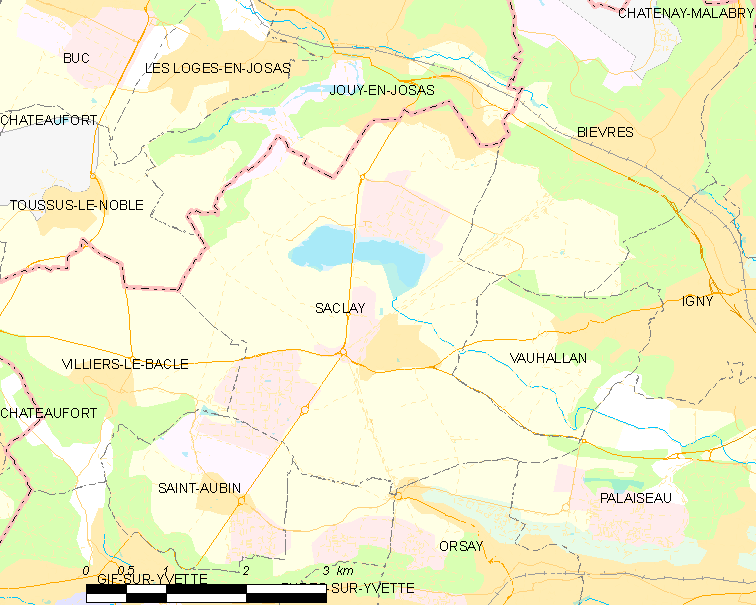 Map of French municipality Saclay